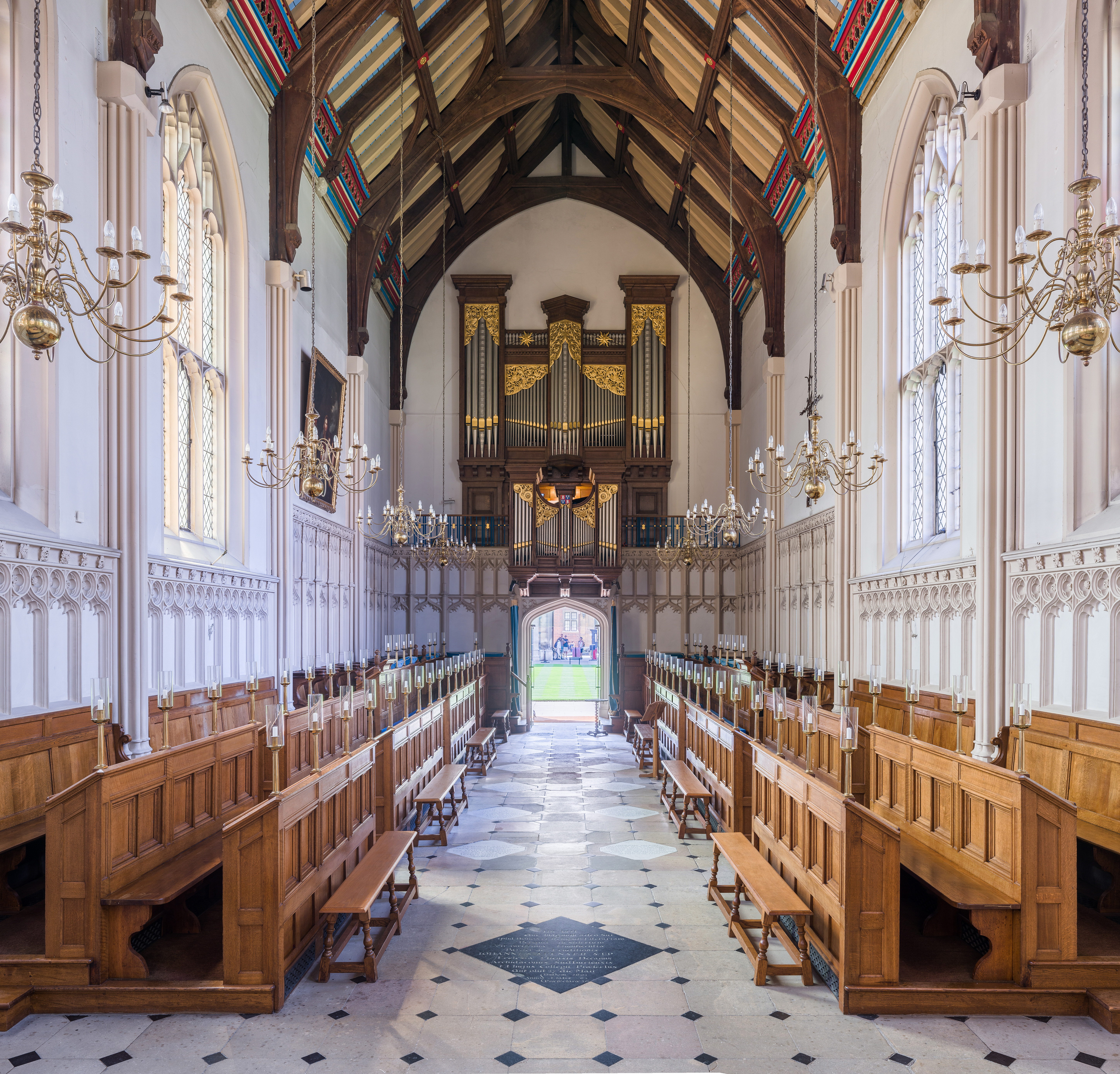 The chapel of Corpus Christi College, Cambridge, England.